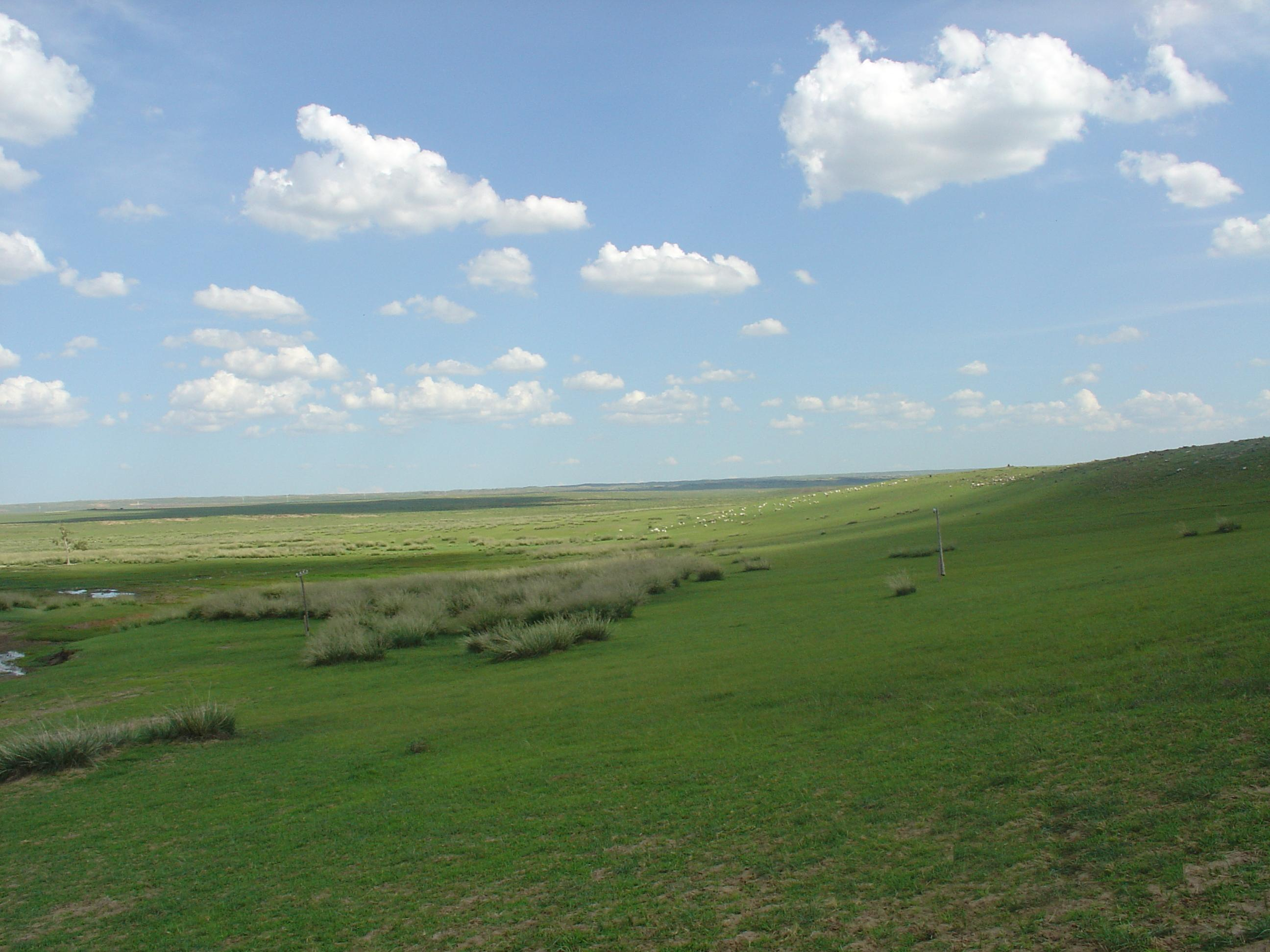 The Mongolian-Manchurian grassland region of the eastern Eurasian Steppe. The grasslands are in Inner Mongolia. 2004.8.1 my photo.